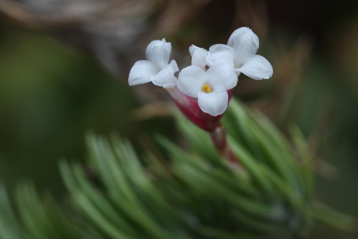 Tillandsia araujei flowers